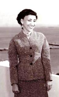 Queen Fatima of Libya during the 1950's.